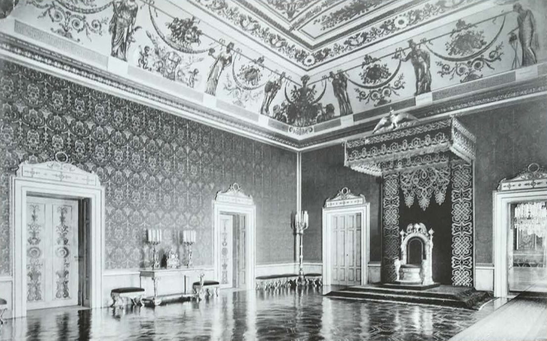 Throne Room, circa 1900, Royal Palace of Naples